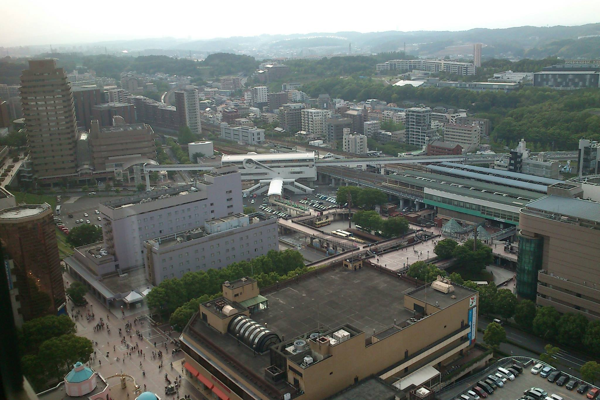 Tama-Center Station and its surroundings as viewed from the Benesse Building